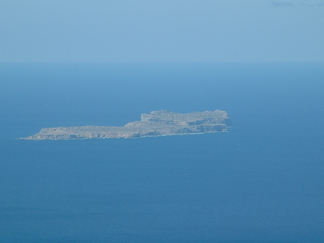 Island of Agria Gramvousa, Crete, Greece